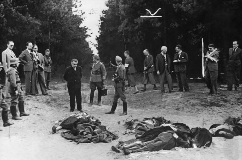 Wehrmacht soldiers showing alleged German victims to journalists. One of many photos used by Nazi propaganda. The image bears editor's cropping marks, showing portion of the image that was intended to be used for publication.